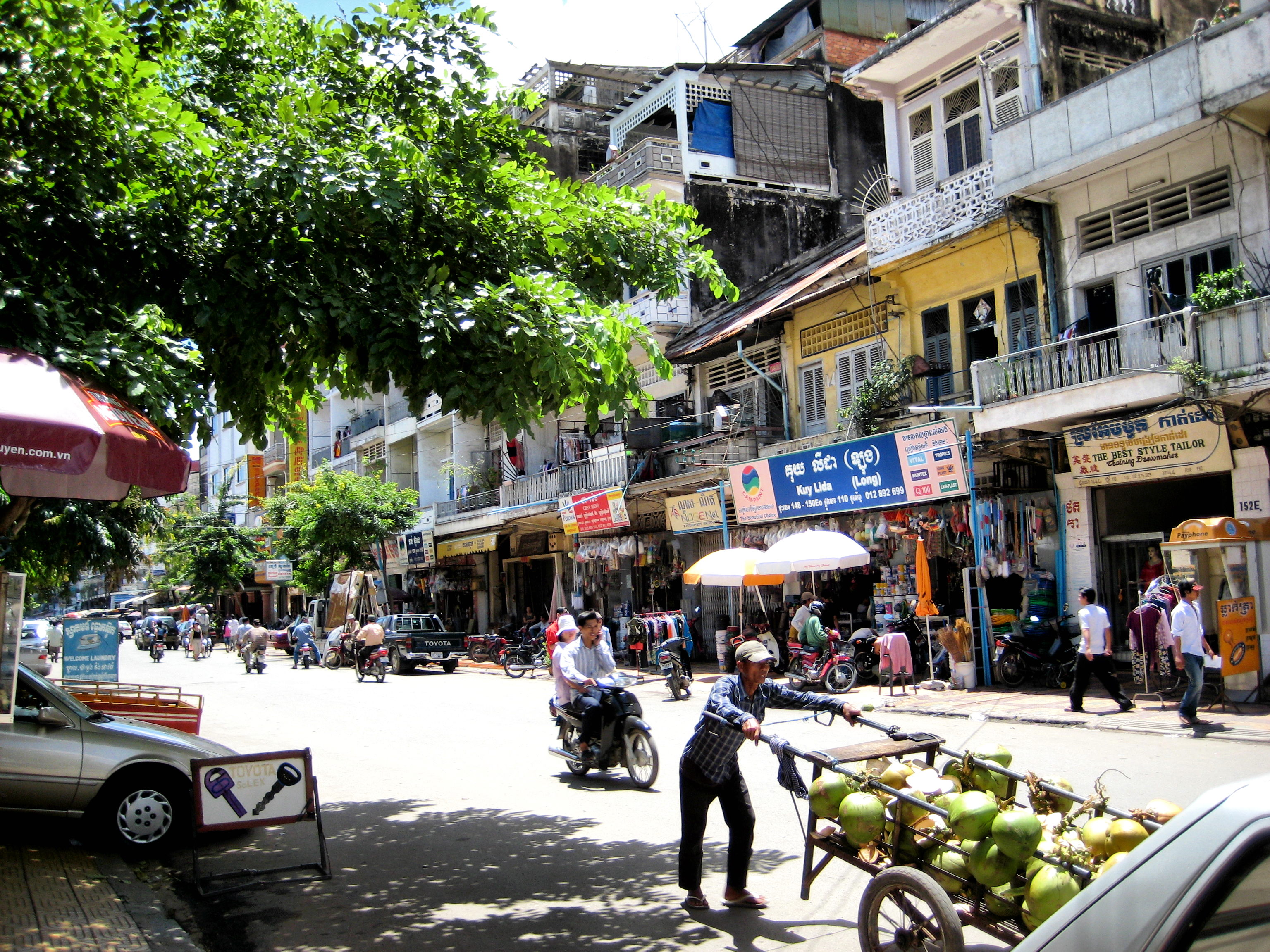 Downtown Phnom Penh 2